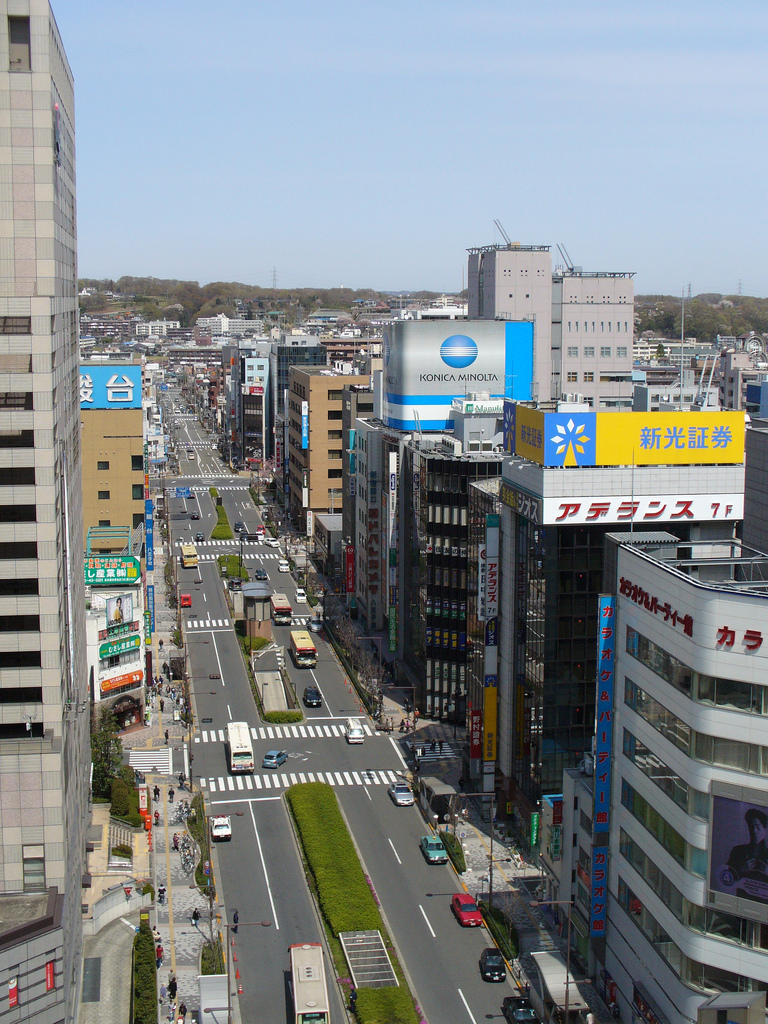 Taken on the Roof of SOGO.